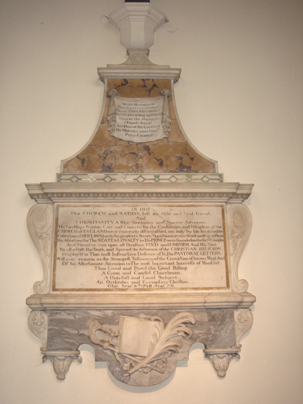 Edmund Gibson monument, All Saints Church, Fulham, London